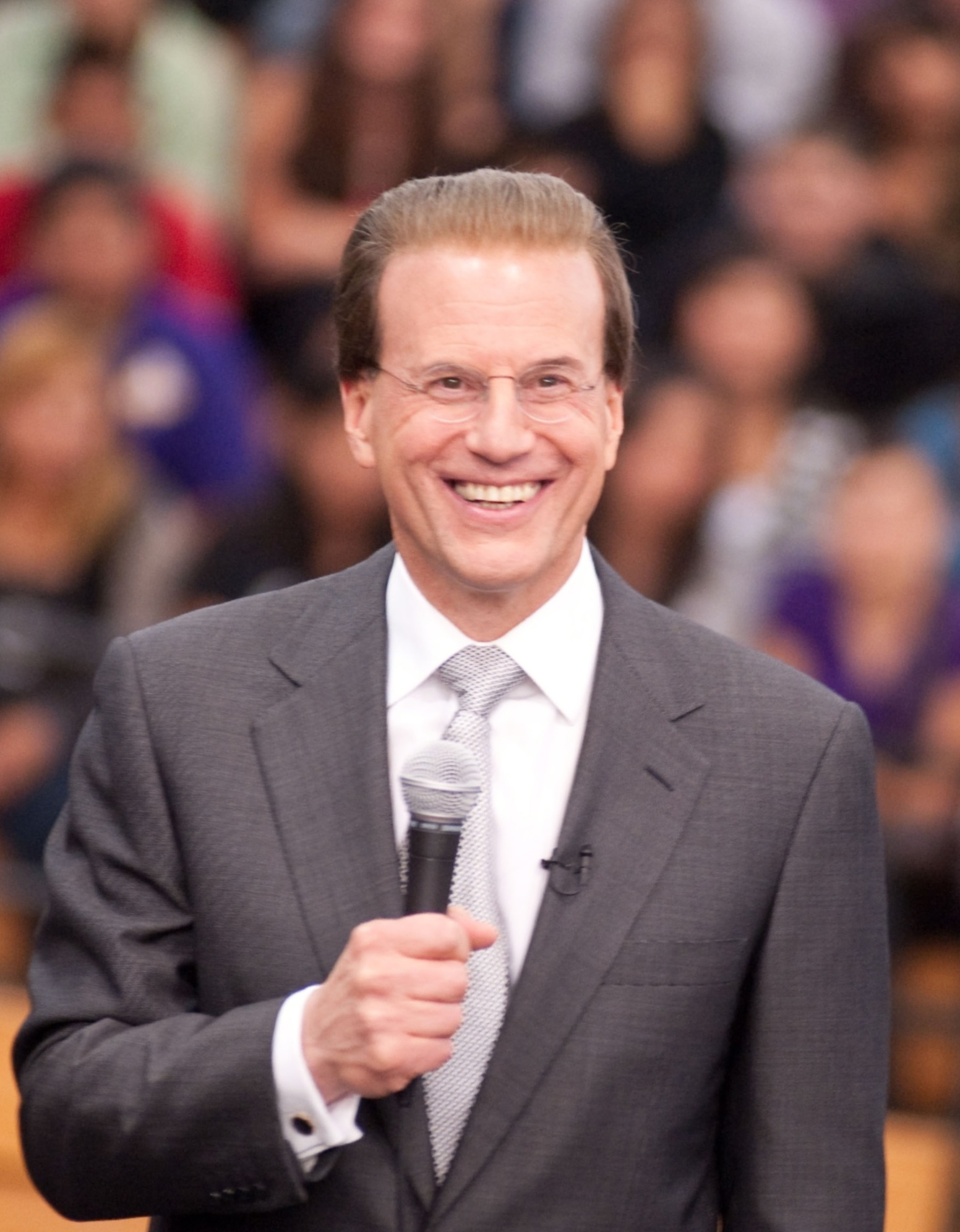 Lowell Milken is pictured here standing in front of an audience of students at Lynwood High school in Lynwood, CA on November 4, 2009.